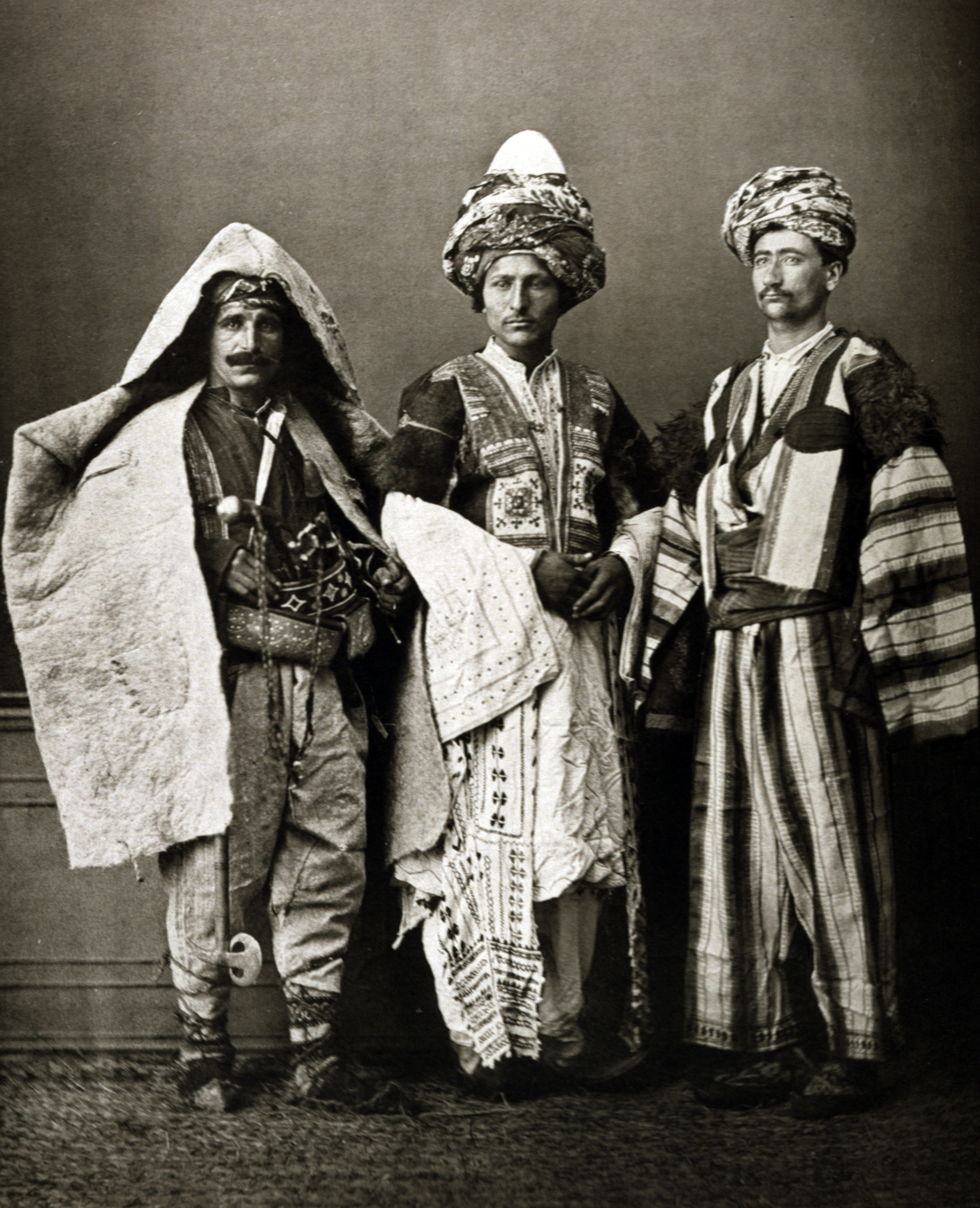 Les Costumes Populaires De La Turquie, en 1873.A collection of photographs by the famous photographer Pascal Sebah on the occasion of the universal exposition in Viena in 1873. The album represents the costumes of the different regions, and ethnic and religious groups of the Ottoman Empire. On the rightis a Kurd from Aljazeera (Mesopotamia). Center, a Kurd of Mardin (a city on the Syrian border). On the left is a shepard from the province of Diyarbekir. Shepherd from the environs of Diarbèkir (Diyarbakır); (2): Kurde of Djizrè (Cizre); and (3): Kurd from the environs of Mardin.